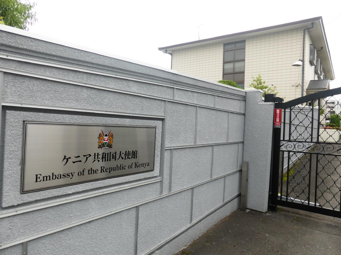 Plaque of the Embassy of Kenya in Tokyo, Japan